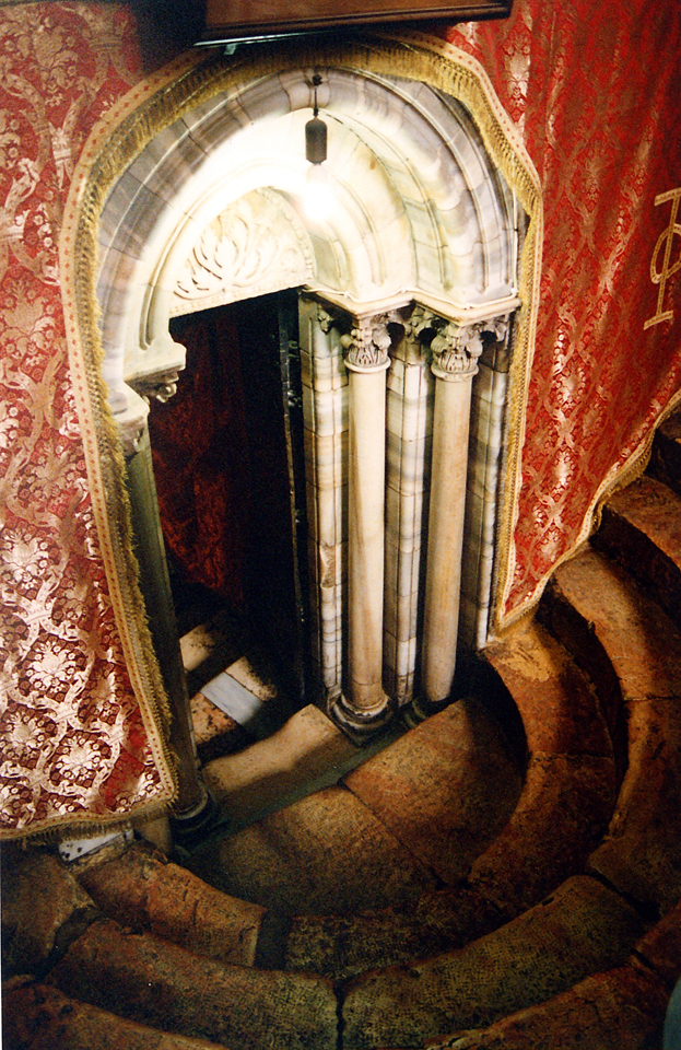 South Entrance to Grotto of the Nativity. Bethlehem. Holy Land.